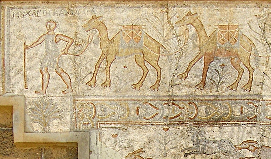 Ancient Roman mosaic from the Syrian city of Bosra depicting a bearded man, likely a caravan merchant leading a camel train through the desert.